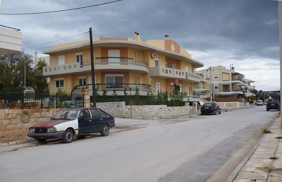 architecture sample of Patima Geraka